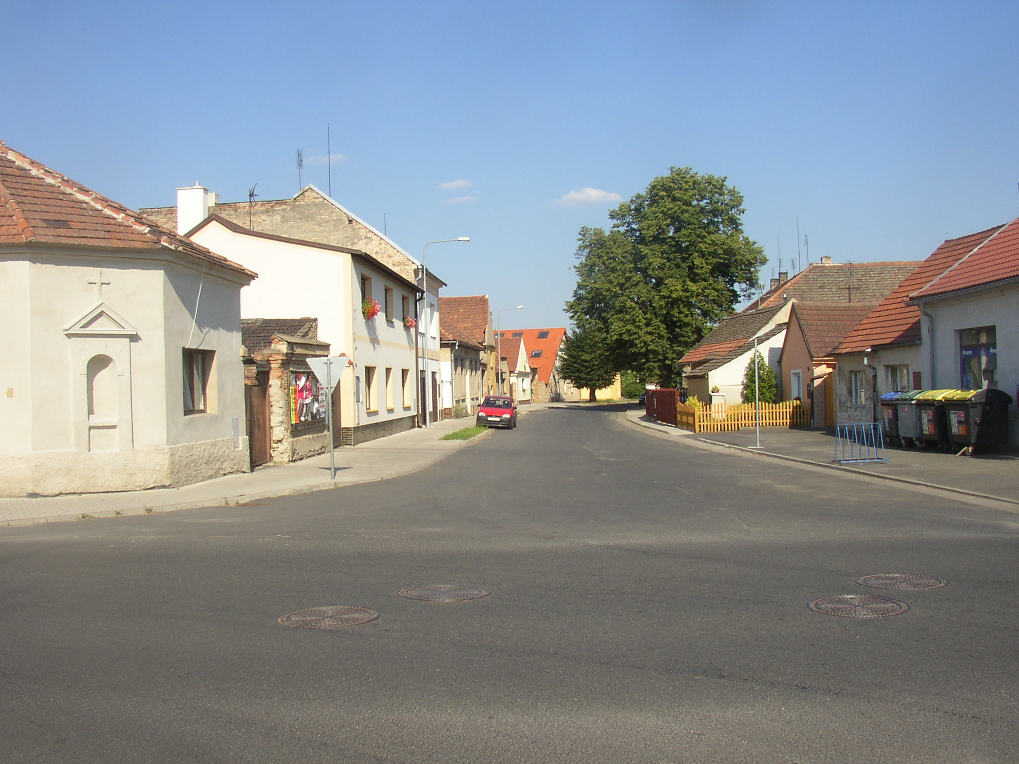 Brňany, Litoměřice District. A view from crossroads of main streets towards east. In the left small niche chapel in corner of house No 30, in the background WWI memorial hidden in shade of big trees.